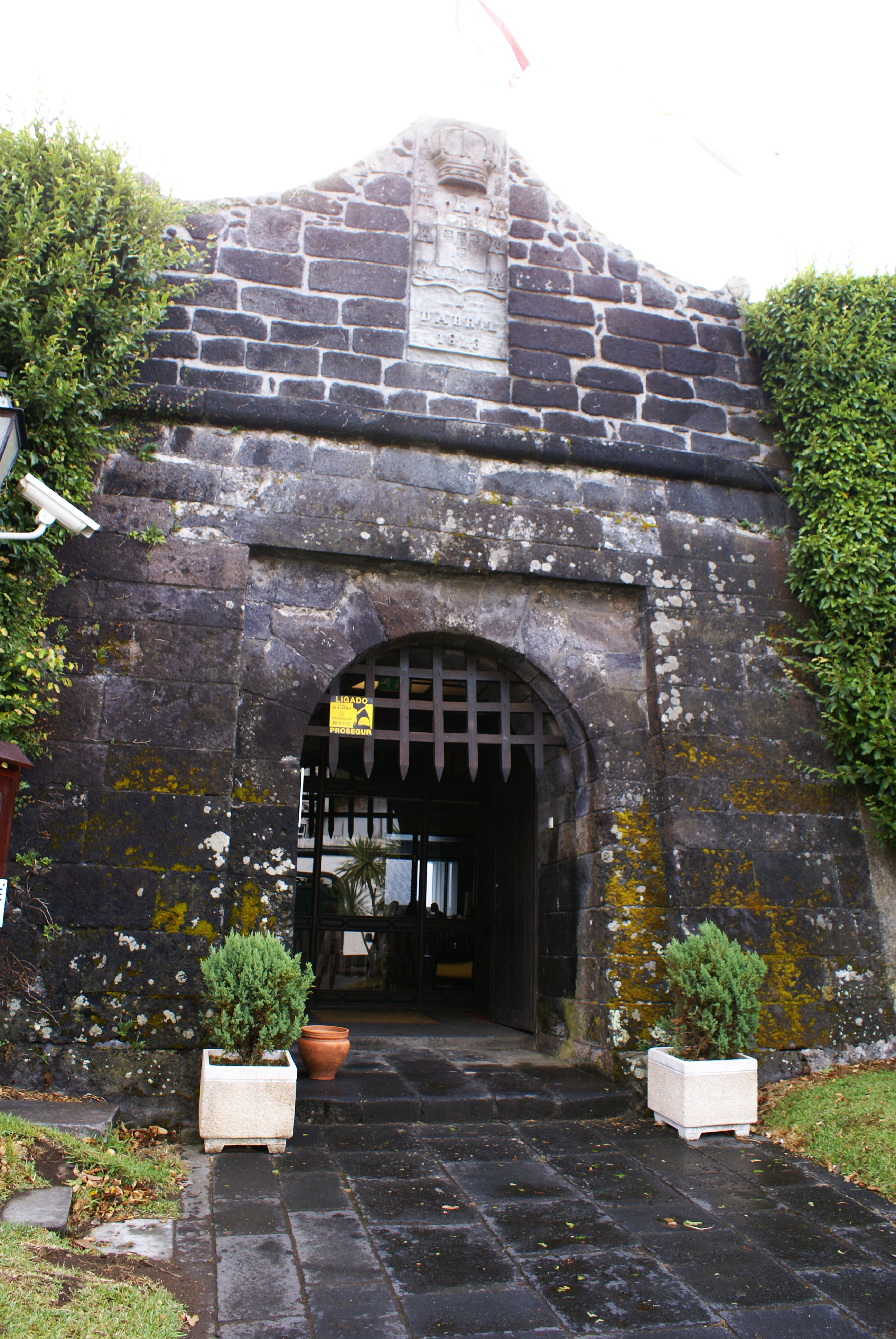 Muralha do Forte de Santa Cruz, entrada, cidade da Horta, ilha do Faial, Açores, Portugal